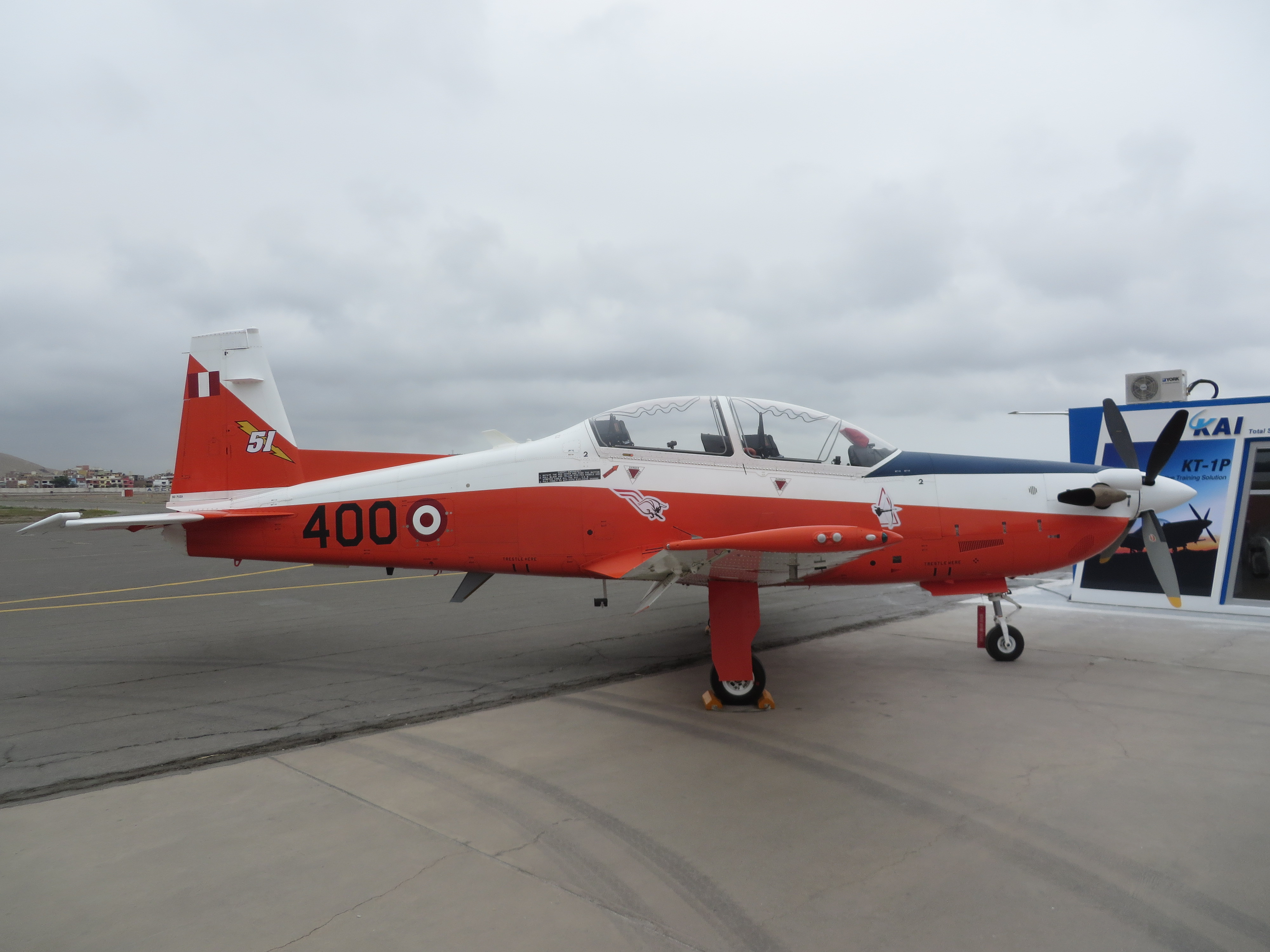 KAI KT-1P Woongbi (FAP-400), Peruvian Air Force